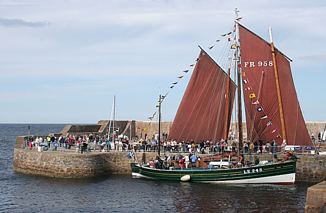 Scottish Traditional Boat Festival The nearer boat here is 'Swan', a Fifie built in 1900 in Lerwick. She fished until 1960, and was eventually found in Hartlepool and taken home for restoration by the Swan Trust. Behind is the Fifie 'Reaper', built in Sandhaven in 1902. After a varied career she was restored by the Scottish Fisheries Museum as a floating museum of the herring fishing.